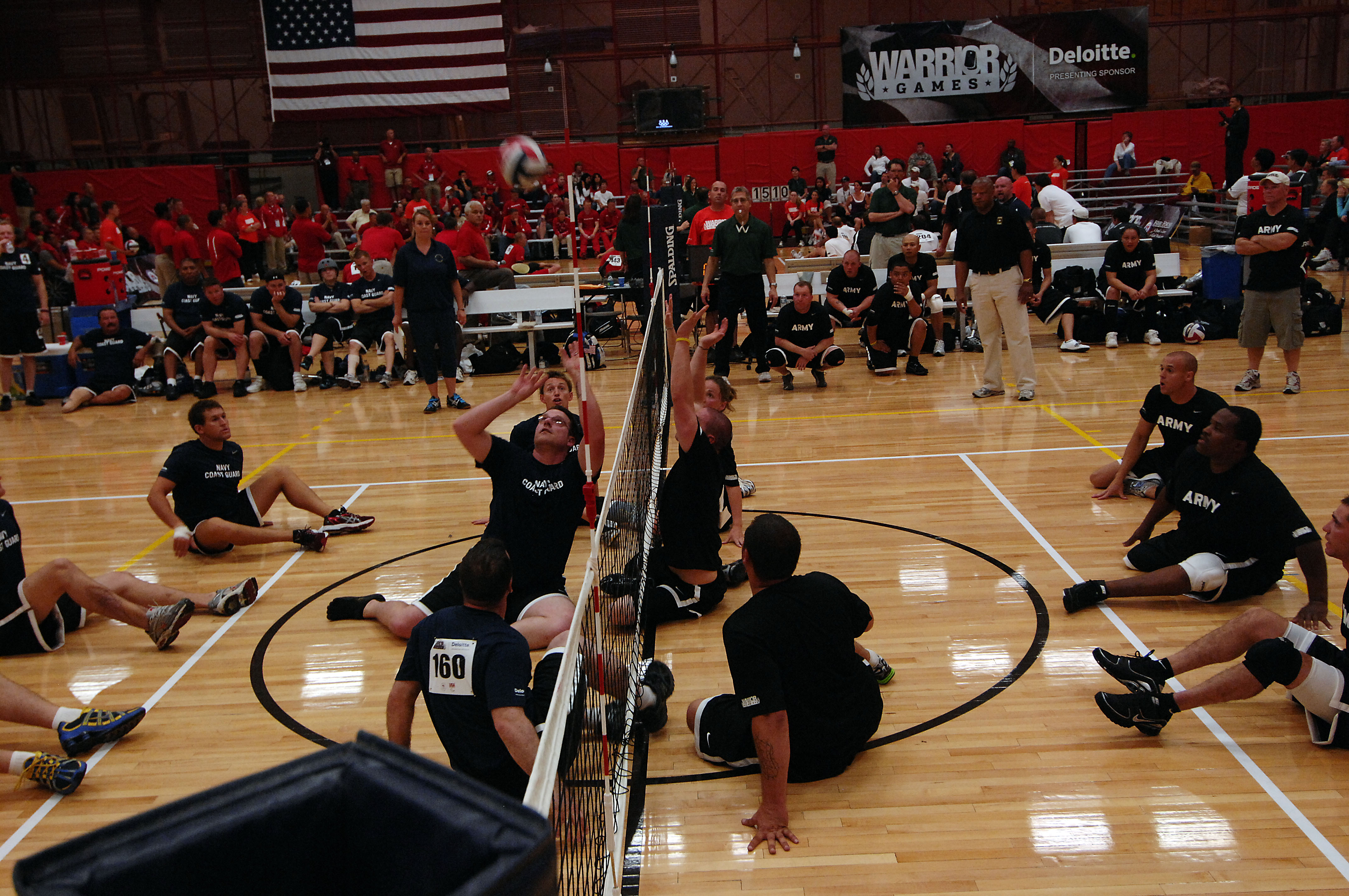 COLORADO SPRINGS, Colo. (May 17, 2011) Members from Team Navy/Coast Guard volley against members of the U.S. Army sitting volleyball team during a preliminary game at the second annual Warrior Games at the Olympic Training Center. Warrior Games is a Paralympic-style sport event among 200 seriously wounded, ill, and injured service members from the U.S. Army, Navy, Air Force, Marine Corps, and Coast Guard. (U.S. Navy photo by Mass Communication Specialist 1st Class Andre N. McIntyre/Released)